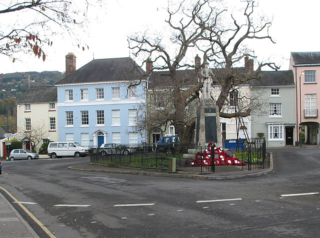 War Memorial, St. James' Square, Monmouth The tree is an Indian Bean Tree, Catalpa bignonioides, a native of SE USA. Several large branches have metal supports.